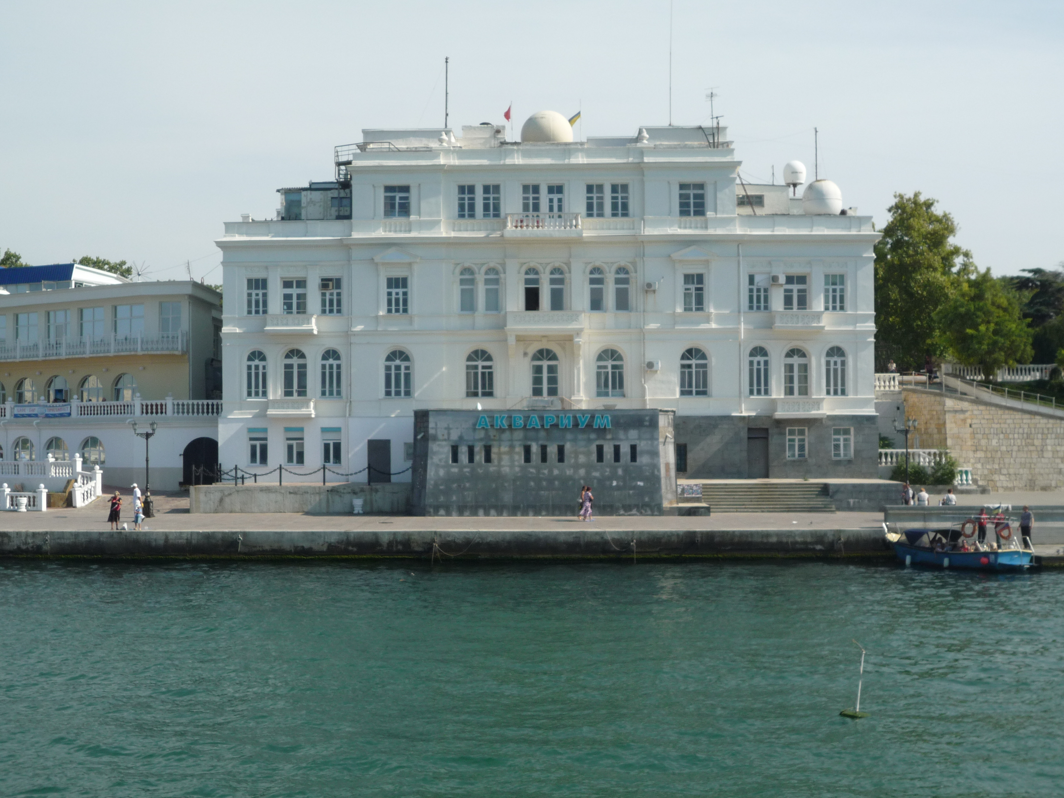 Sevastopol city aquarium, 2010